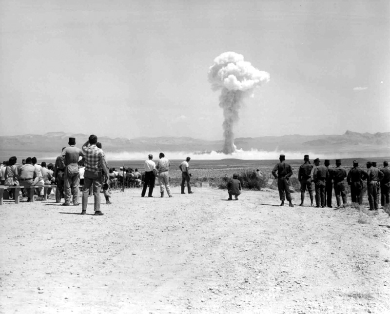 "Small Boy" nuclear test, July 14, 1962, part of Operation Sunbeam, at the Nevada Test Site. Yield was 1.65 kt.